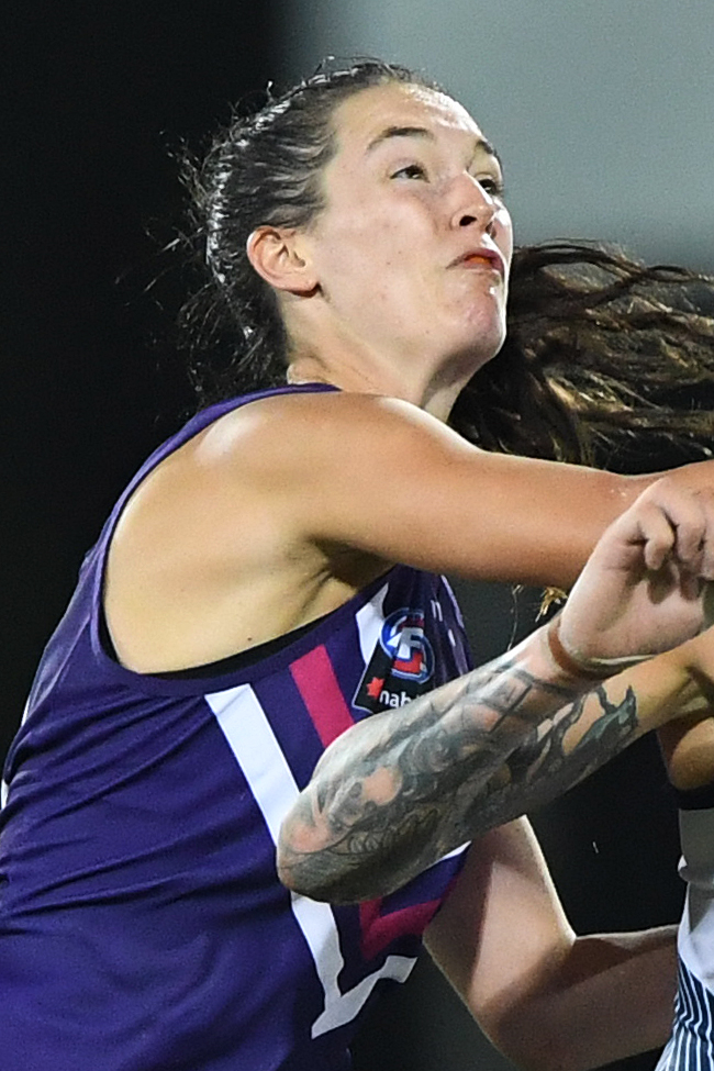 Philipa Seth of Fremantle during the 2019 AFL Women's practice match between the Adelaide Football Club and Fremantle Football Club at TIO Stadium on January 19, 2019 in Darwin Australia.